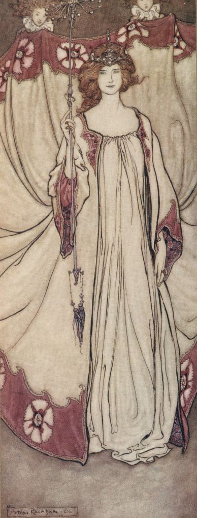 From Peter Pan in Kensington Gardens, illustrated by Arthur Rackham.